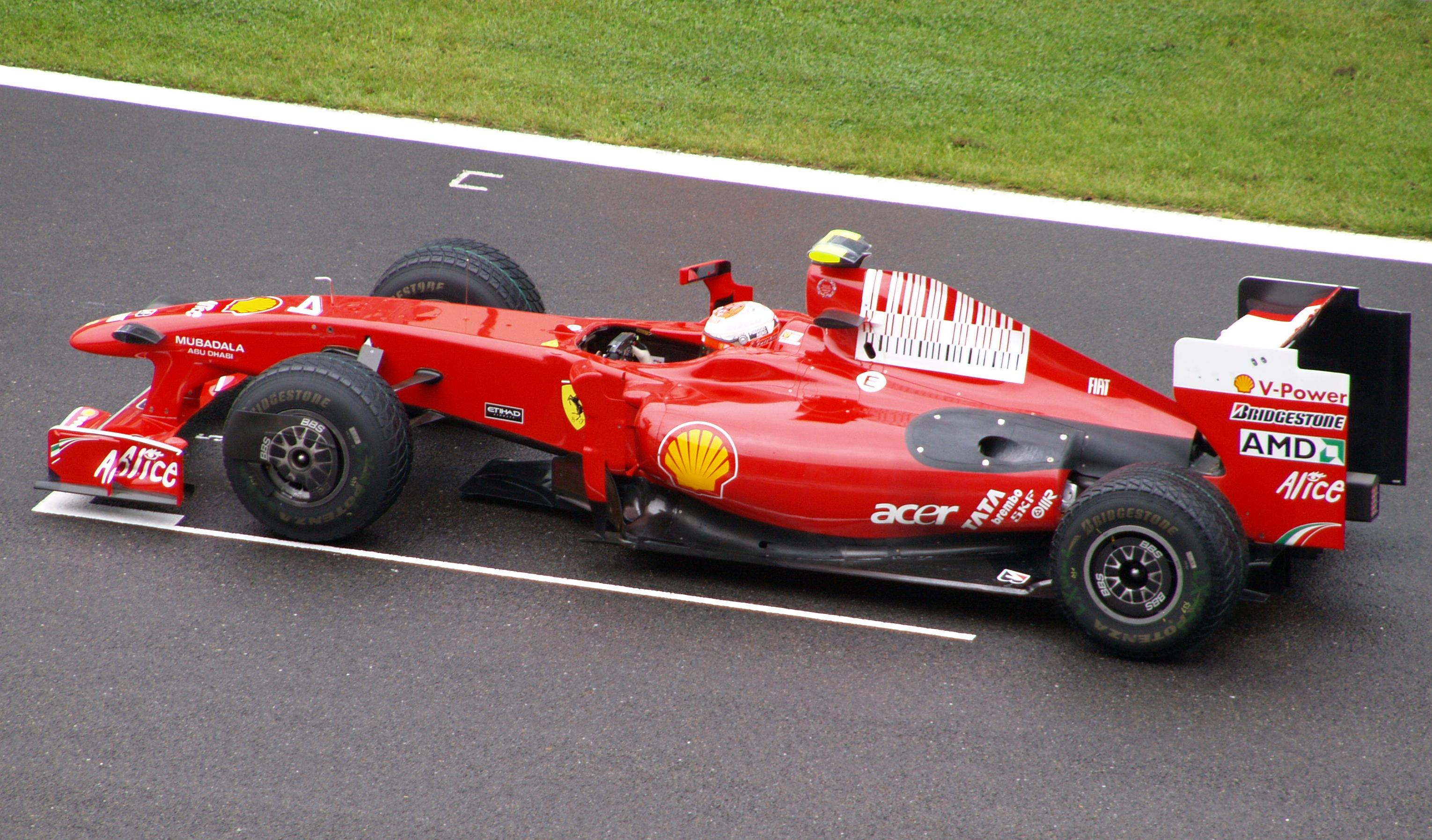 Kimi Räikkönen driving for Scuderia Ferrari at the 2009 Belgian Grand Prix